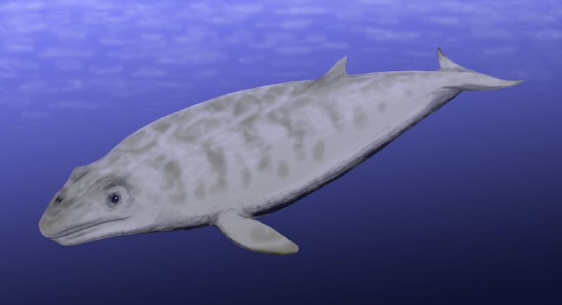 Janjucetus hunderi, a Mysticeti whale from the Oligocene of Australia, digital work.